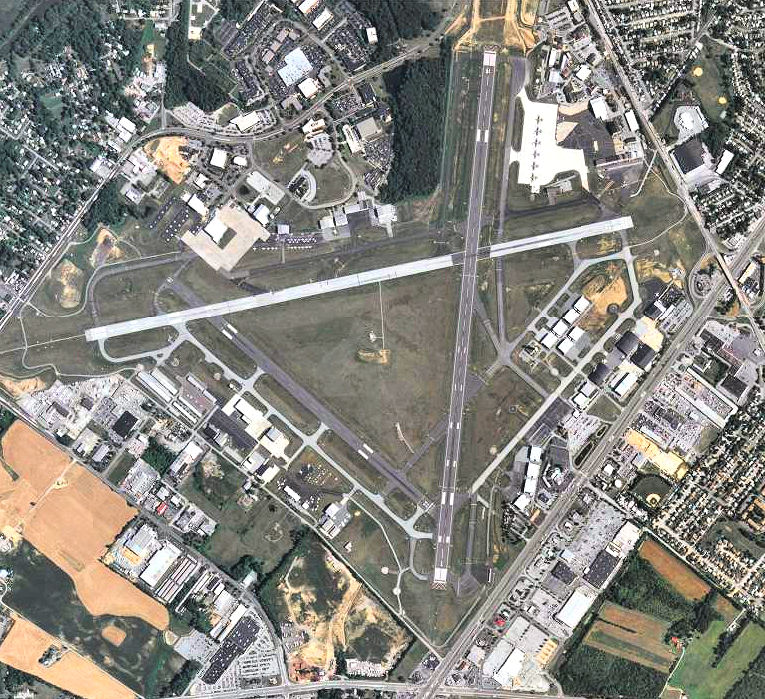 USGS digital orthophoto of New Castle Airport in Delaware